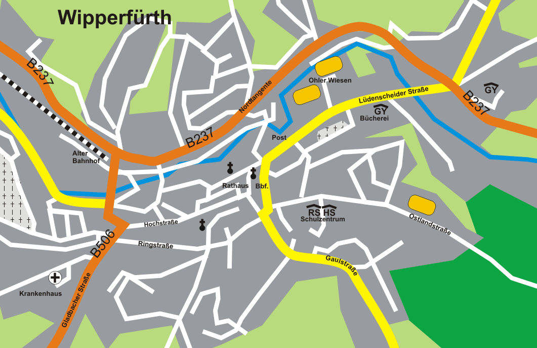 Wipperfürth created by Benutzer:JensD